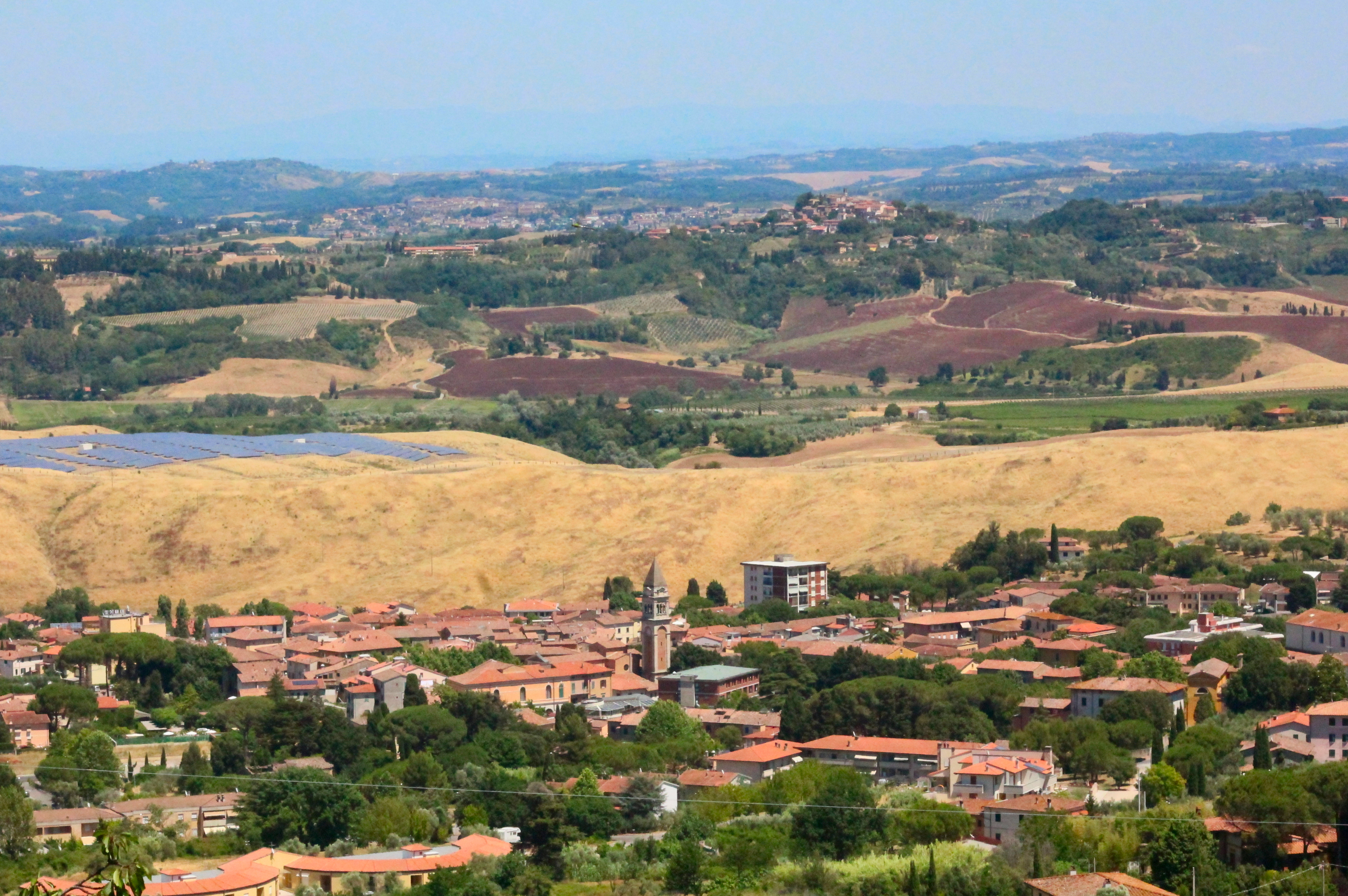 Panorama of Casciana Terme, hamlet of Casciana Terme Lari, Province of Pisa, Tuscany, Italy